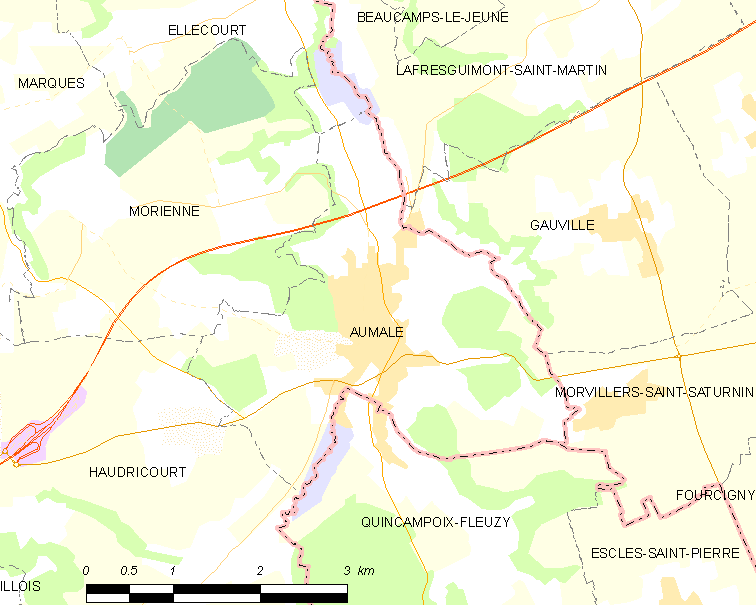 Map of French municipality Aumale